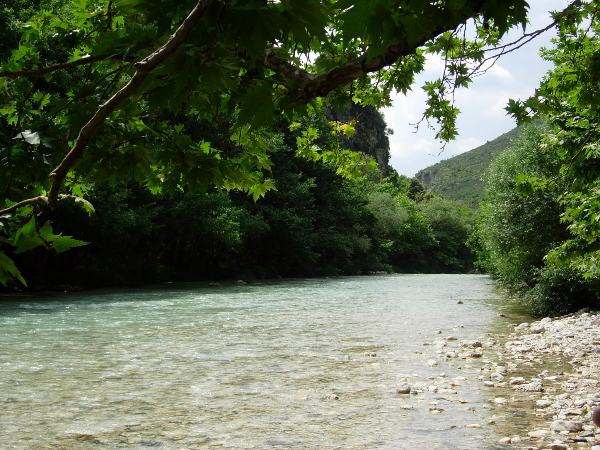 Acheron river near the village of Glyki (Gliki) in May 2005.